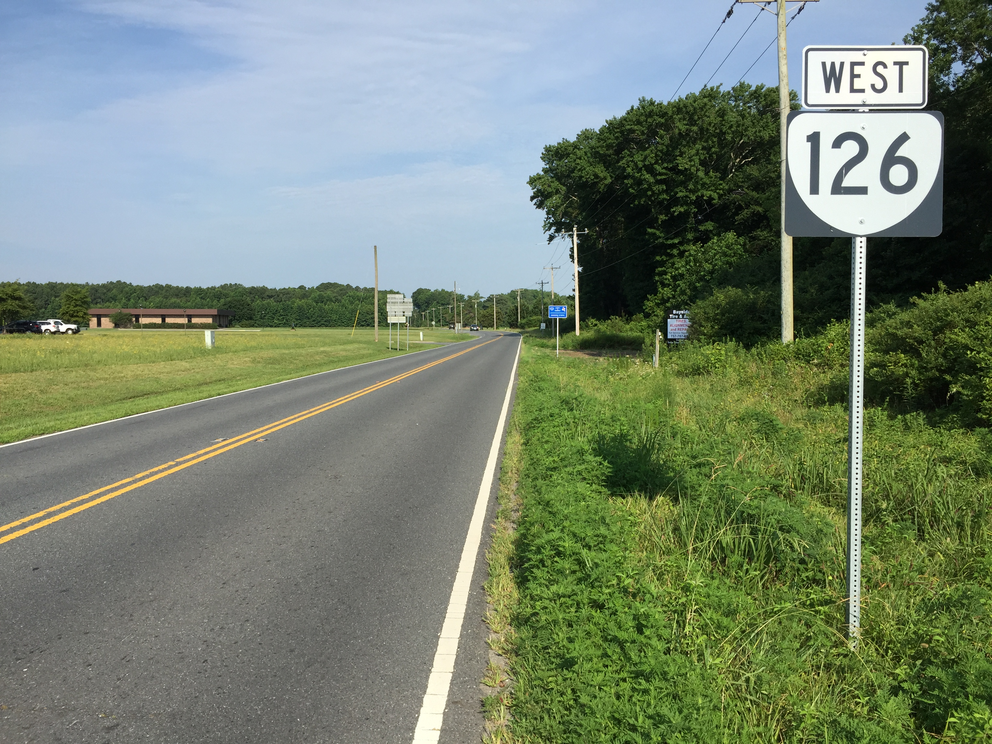 View west along Virginia State Route 126 (Fairgrounds Road) at Virginia State Secondary Route 650 in Tasley, Accomack County, Virginia